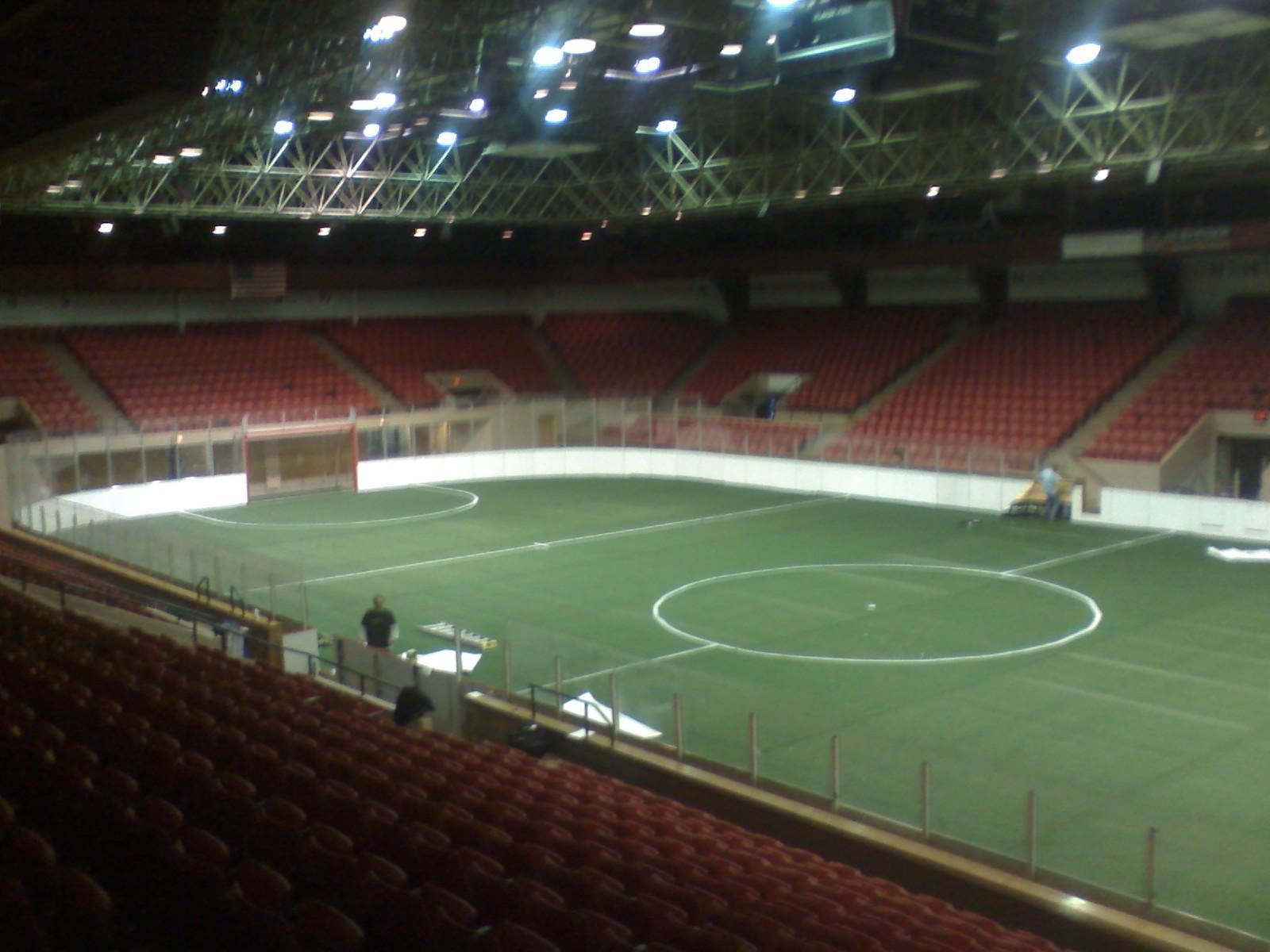 sport science hall